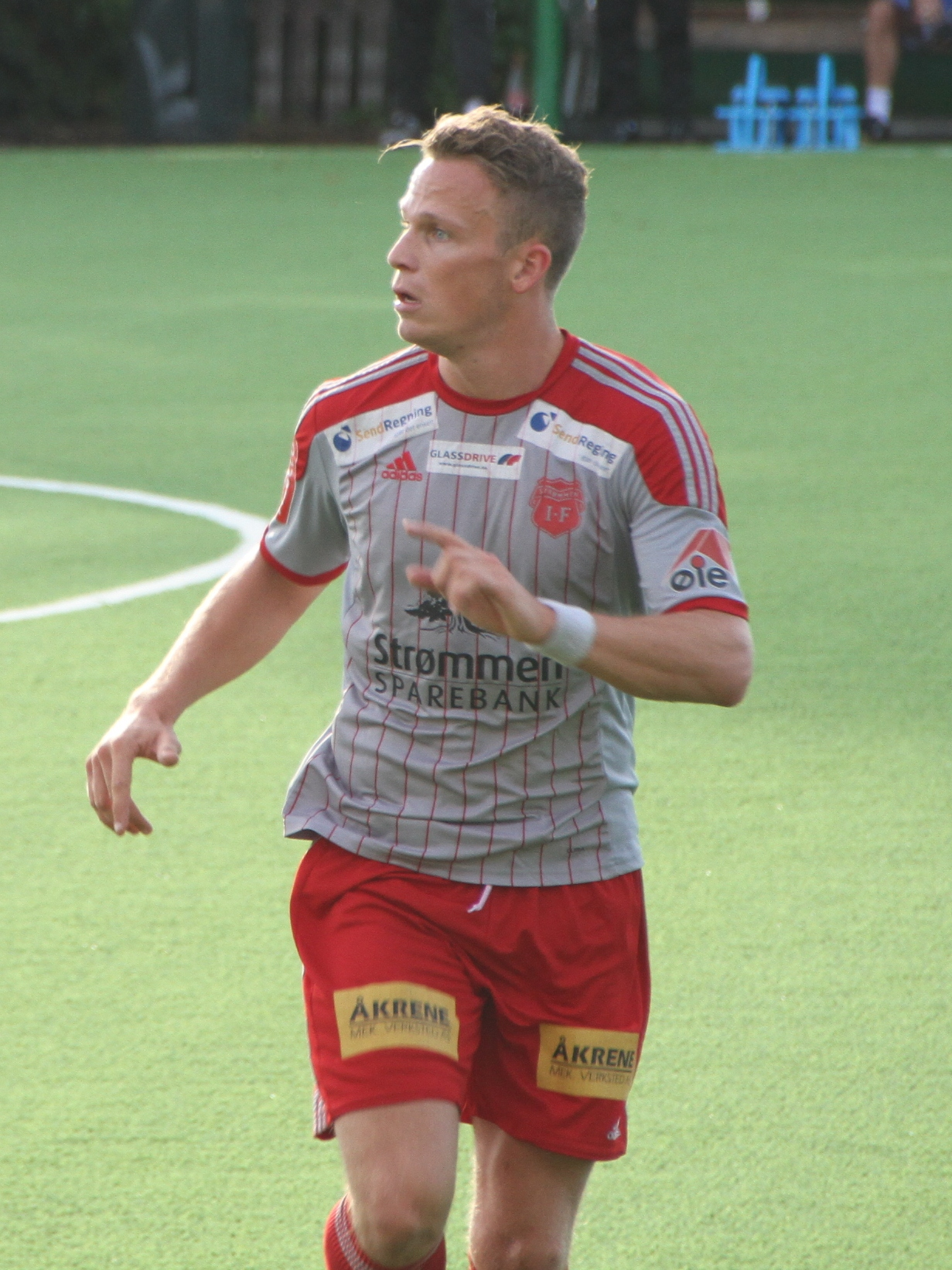 Strømmen IF player, at Strømmen stadium, Akershus, Norway